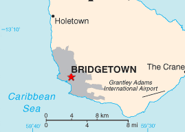 For use in Bridgetown,based off of Image:Barbados_map.png(seen below), which is a CIA World fact book map. Image:Bb-map.png